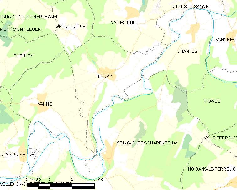 Map of French municipality